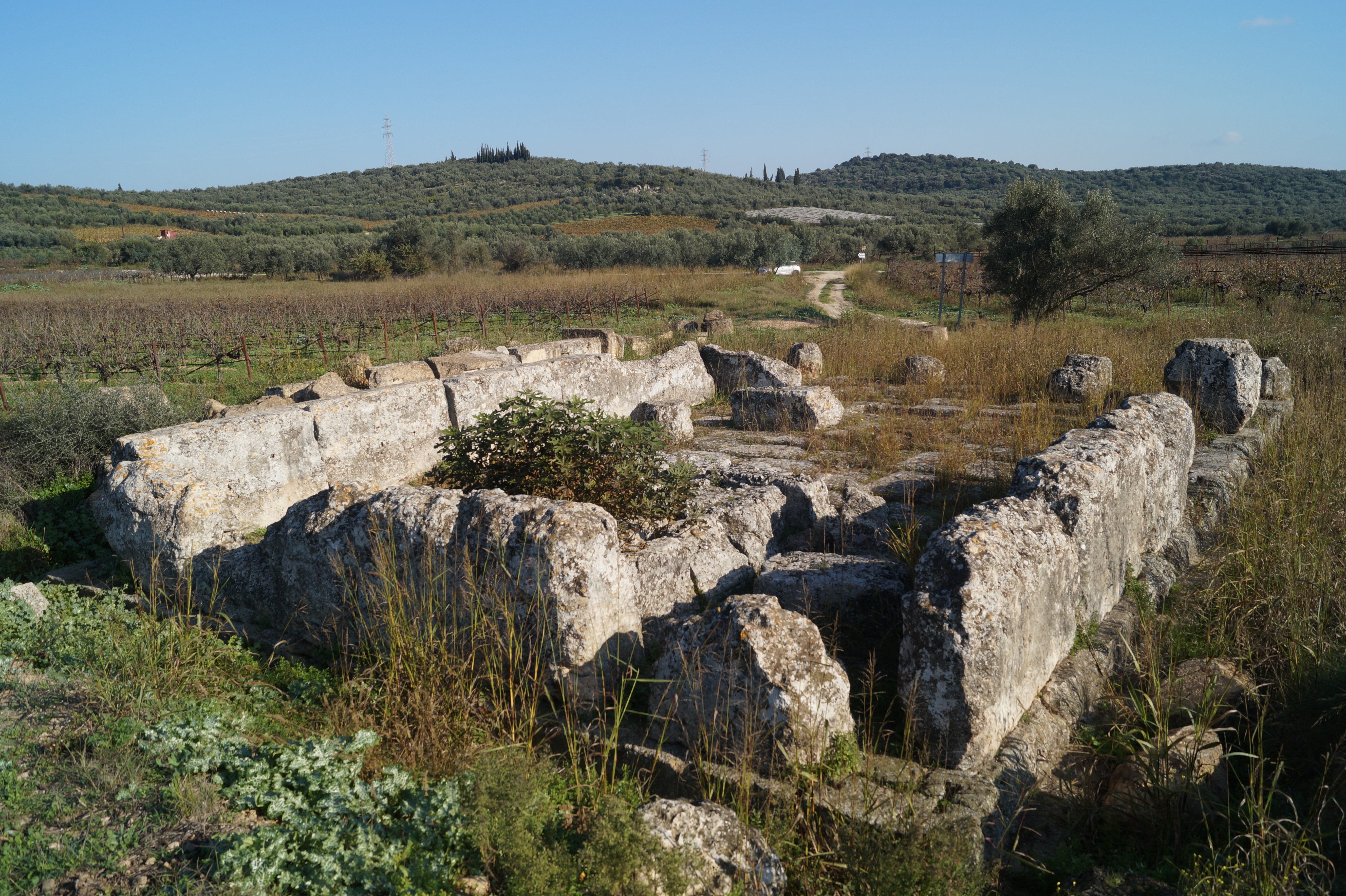 Archaies Kleones, Corinthia, Greece: Temple of Hercules at Cleonae, view from south. In the background there are the two hills on which Cleonae was.